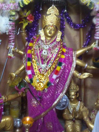 Hinglaj Mata idol at Kadasar (Chotila), Gujarat, India.